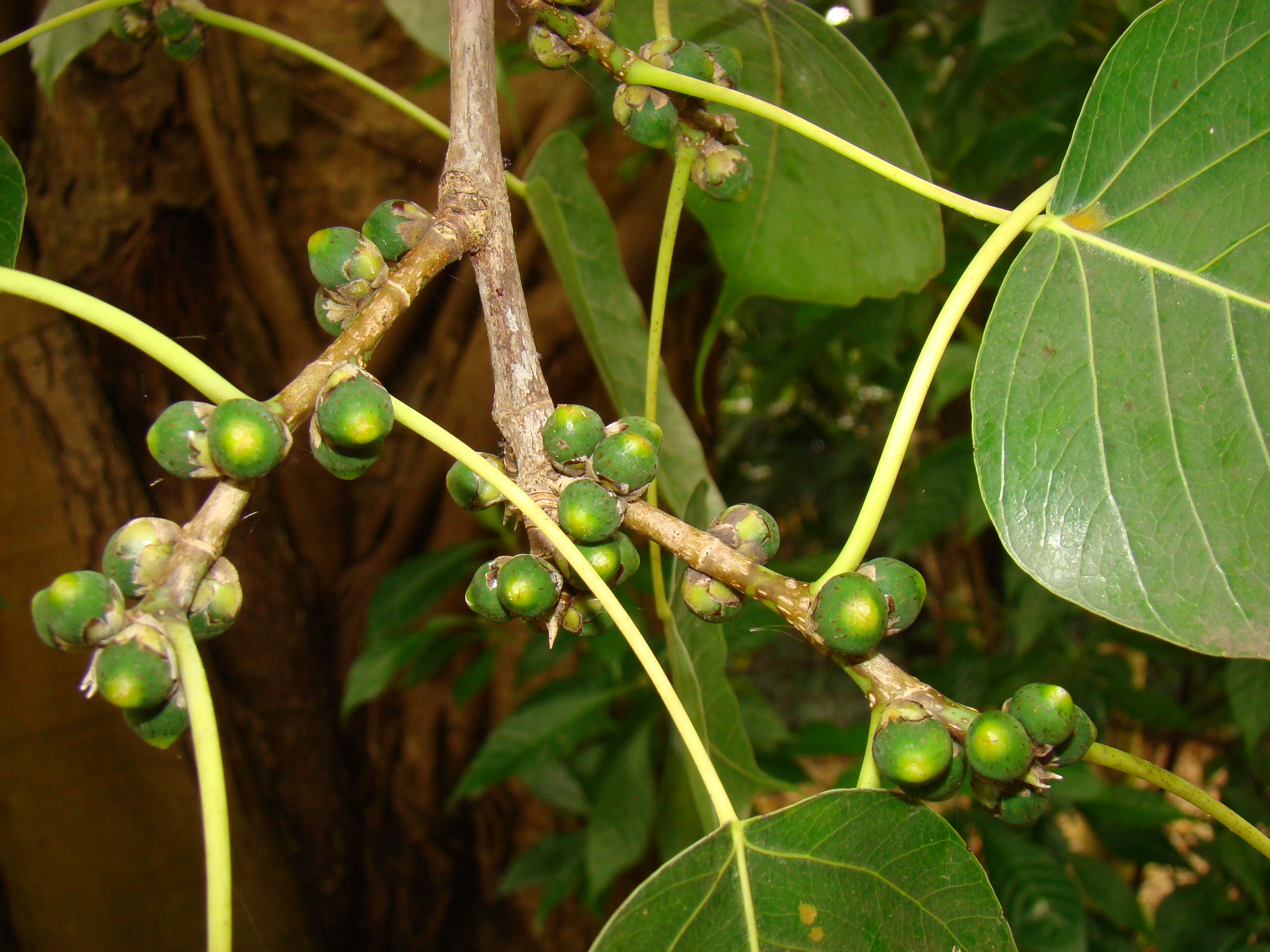 Florida